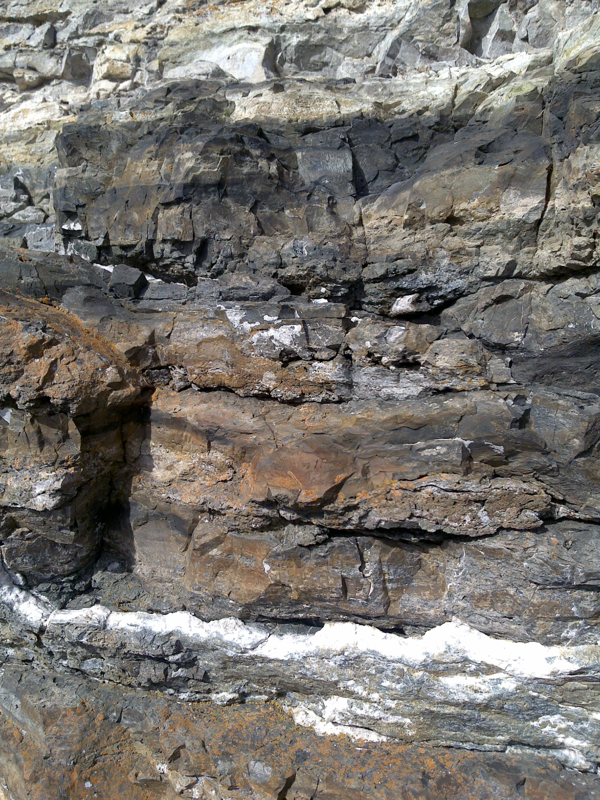 Silurian layers at Ersvika, Hurum, Norway. Oslo Field. Red sandstone, hornfels, black marble.